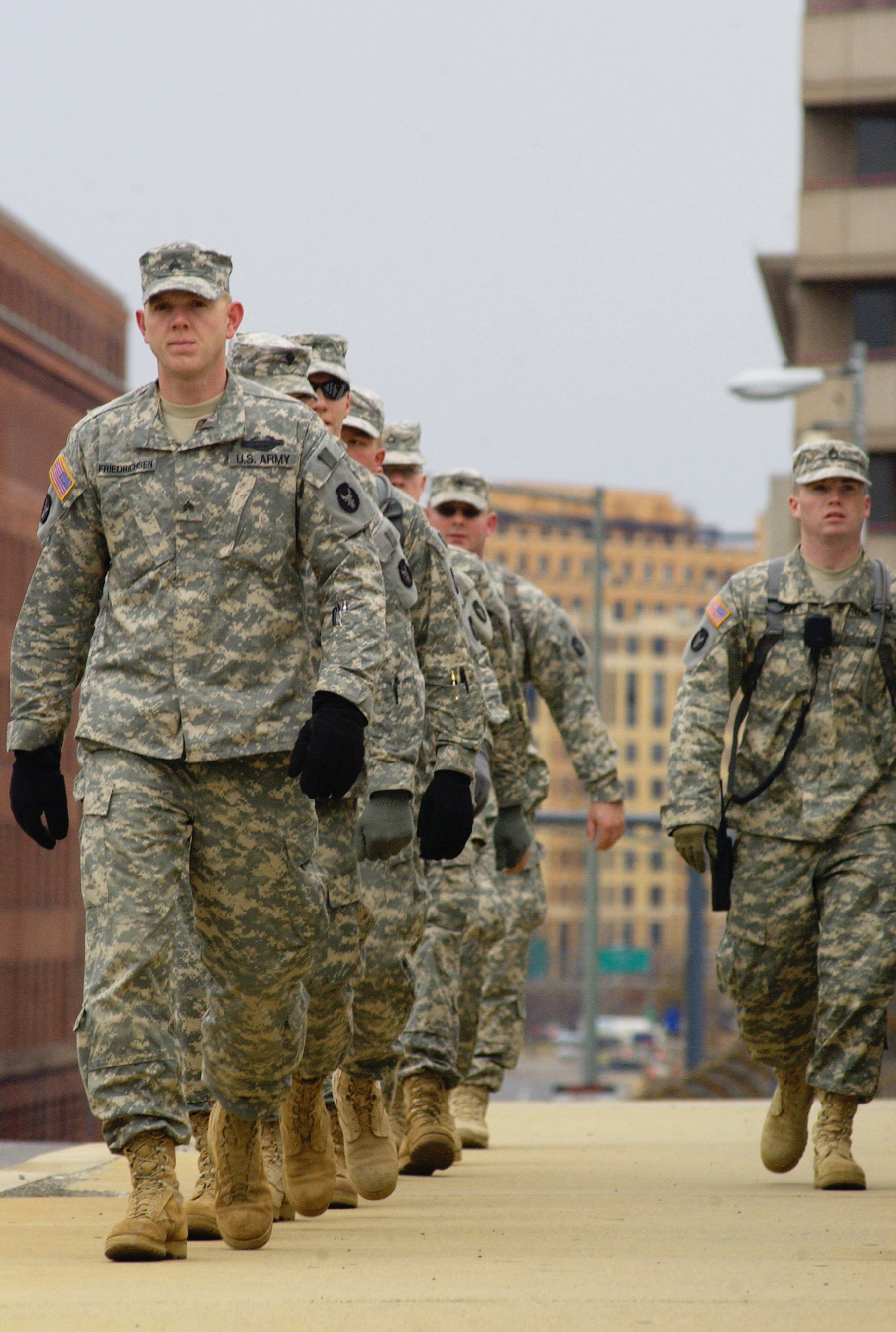 Washington, D.C.-- Iowa National Guard soldiers from Alpha Company, 1st Battalion, 168th Infantry Regiment, 34th Infantry Division reconnoiter possible checkpoints to be used for security efforts during the 56th presidential inauguration in Washington, D.C. Their recon ended near Capitol Hill, where the soldiers took the opportunity to pose for a group photo in front of the Capitol Building.